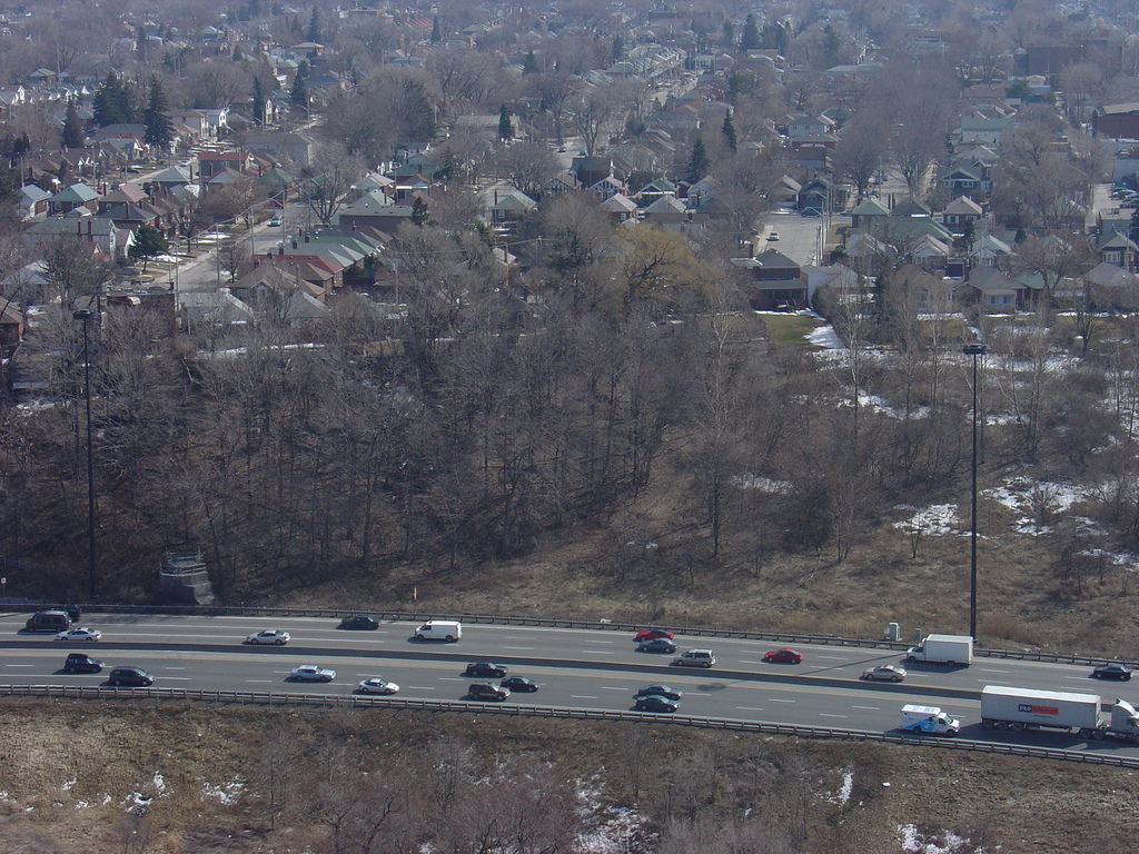 View of Don Valley Parkway in foreground, with homes of East York in background. Toronto, Canada